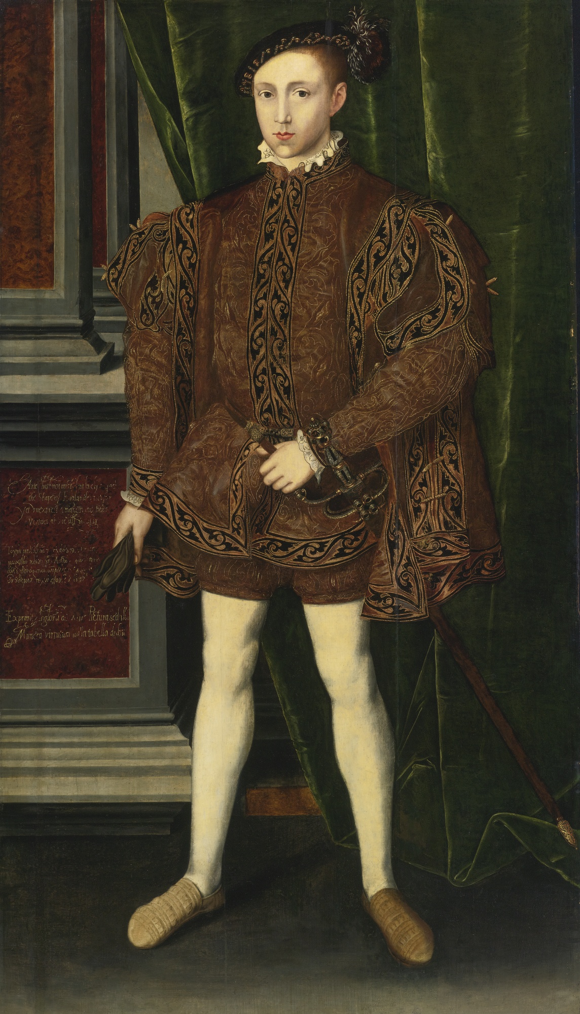 Portrait of Edward VI of England, full length, in a tawny suit.